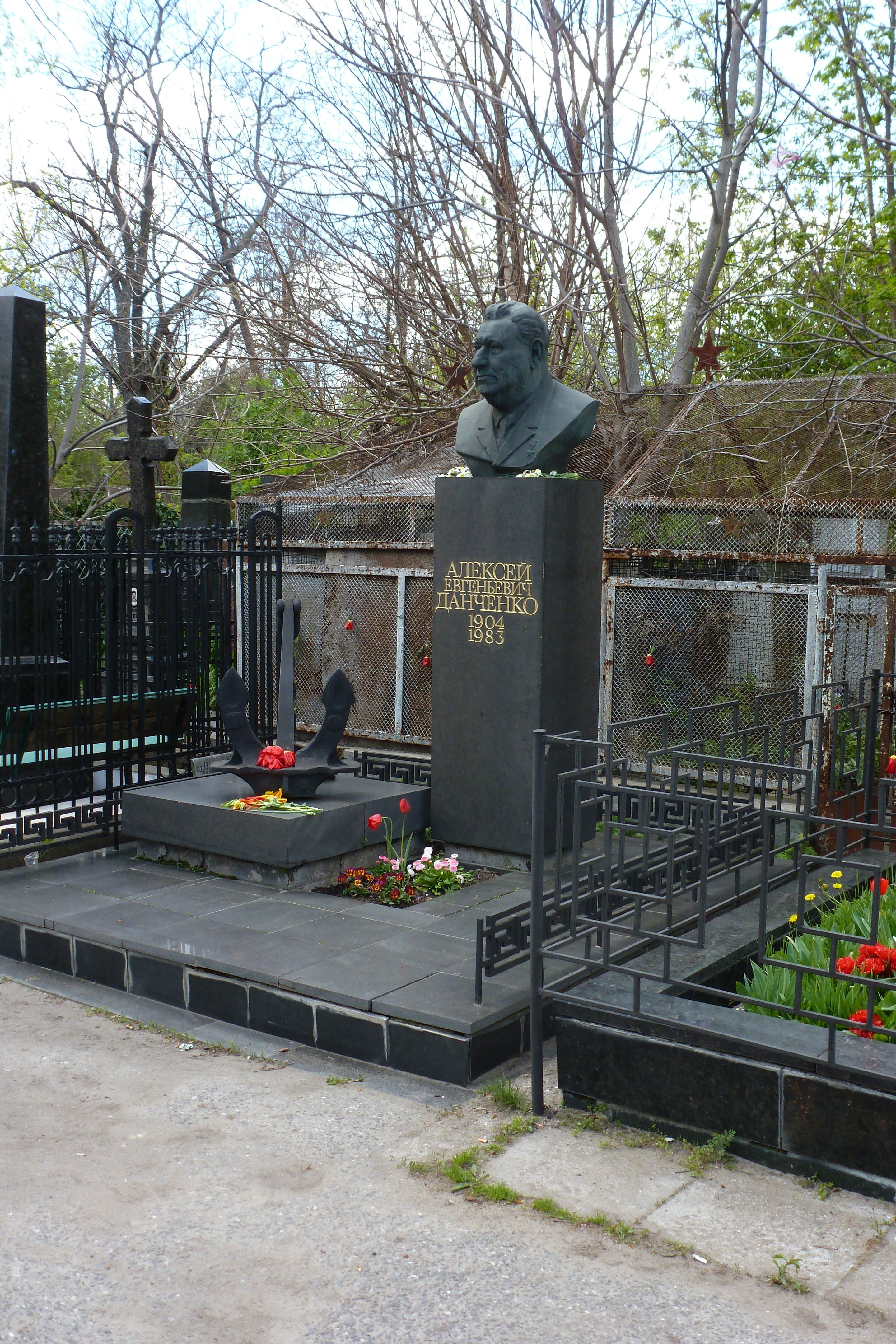 The tombstone of Aleksey Danchenko on the Second Christian Cementery in Odessa.